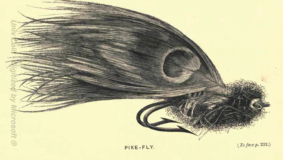 Woodcut of a Pike-Fly from The Book of Pike Pennell (1865)